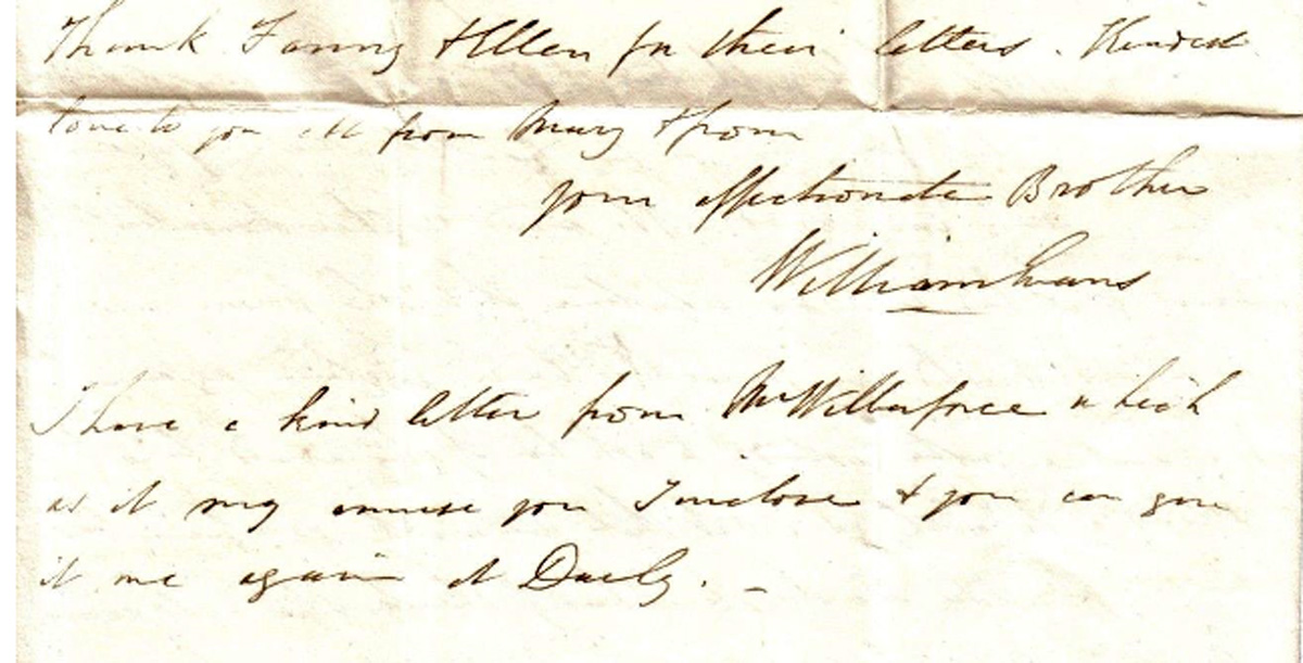 Letter from William Evans to his sister, circa 1820